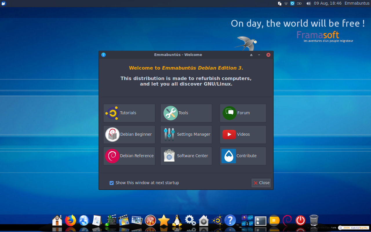 Emmabuntüs DE 3 (Debian 10 Buster) : Screenshot of the XFCE environment